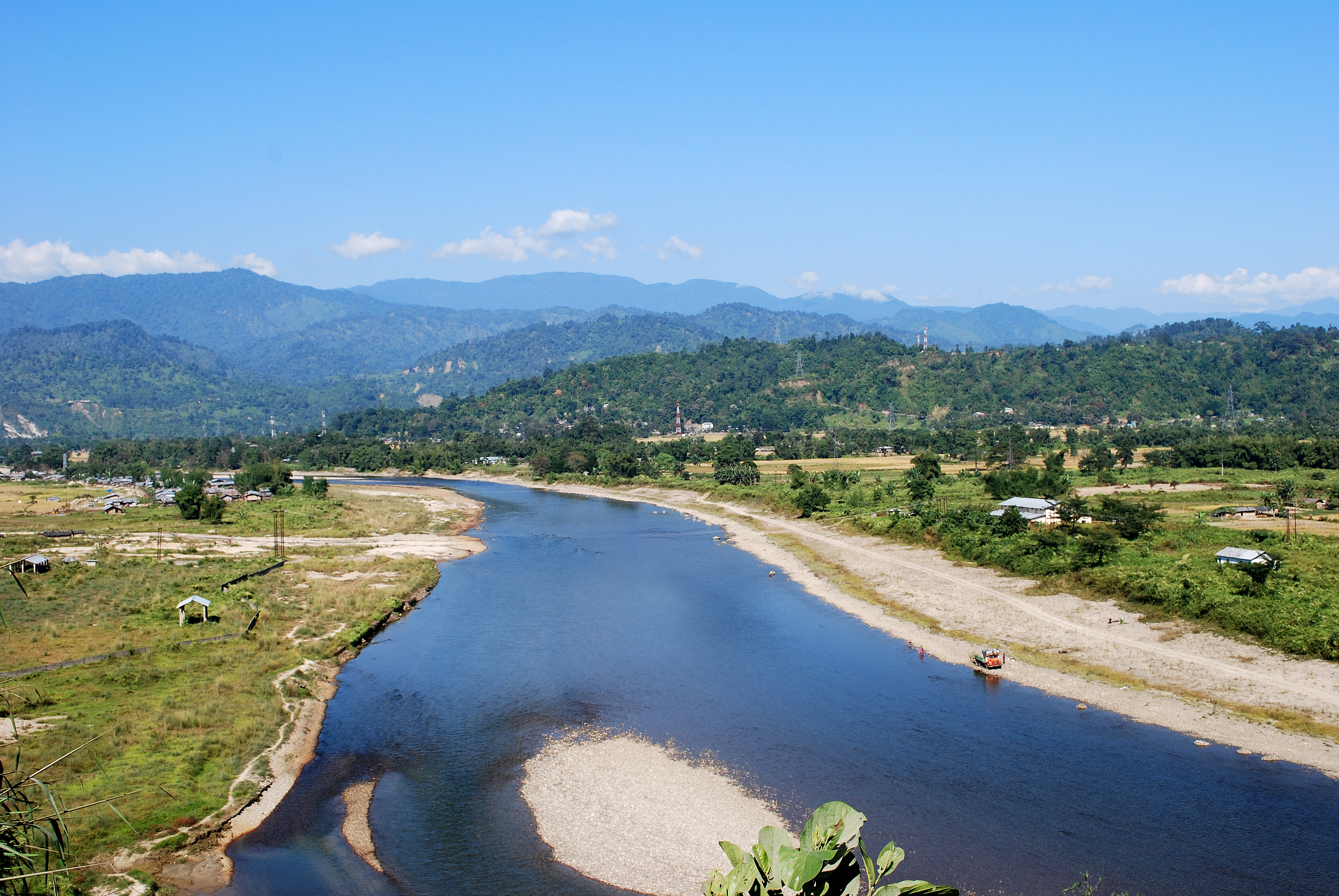 Dikrong river near Itanagar during winter season.